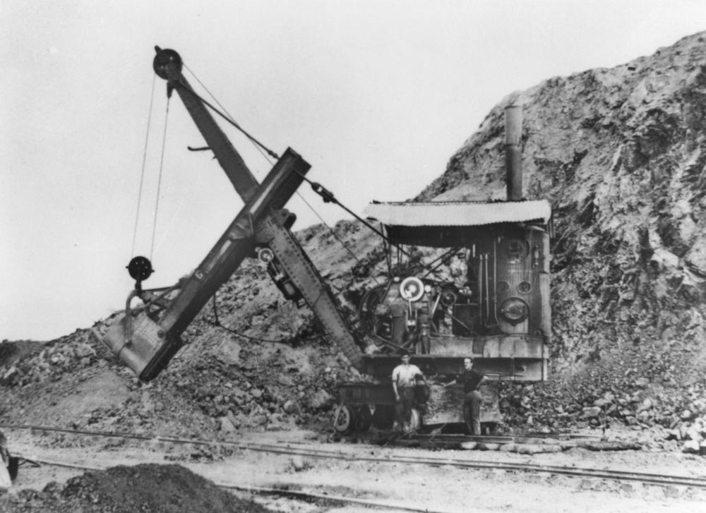 Steam shovel used to construct Holts Hill filters at Mount Crosby, 1931